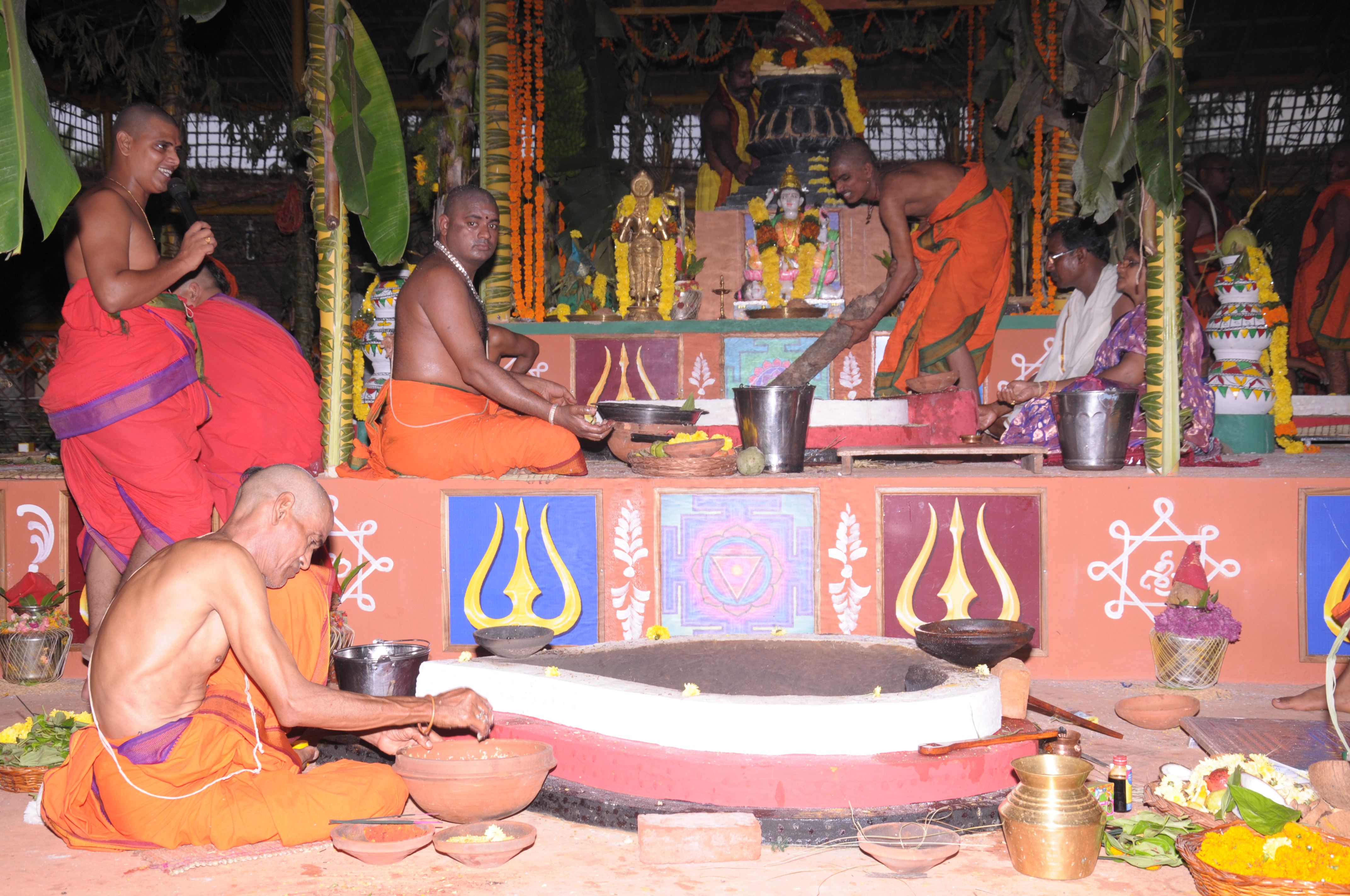 ahoratram yagasala